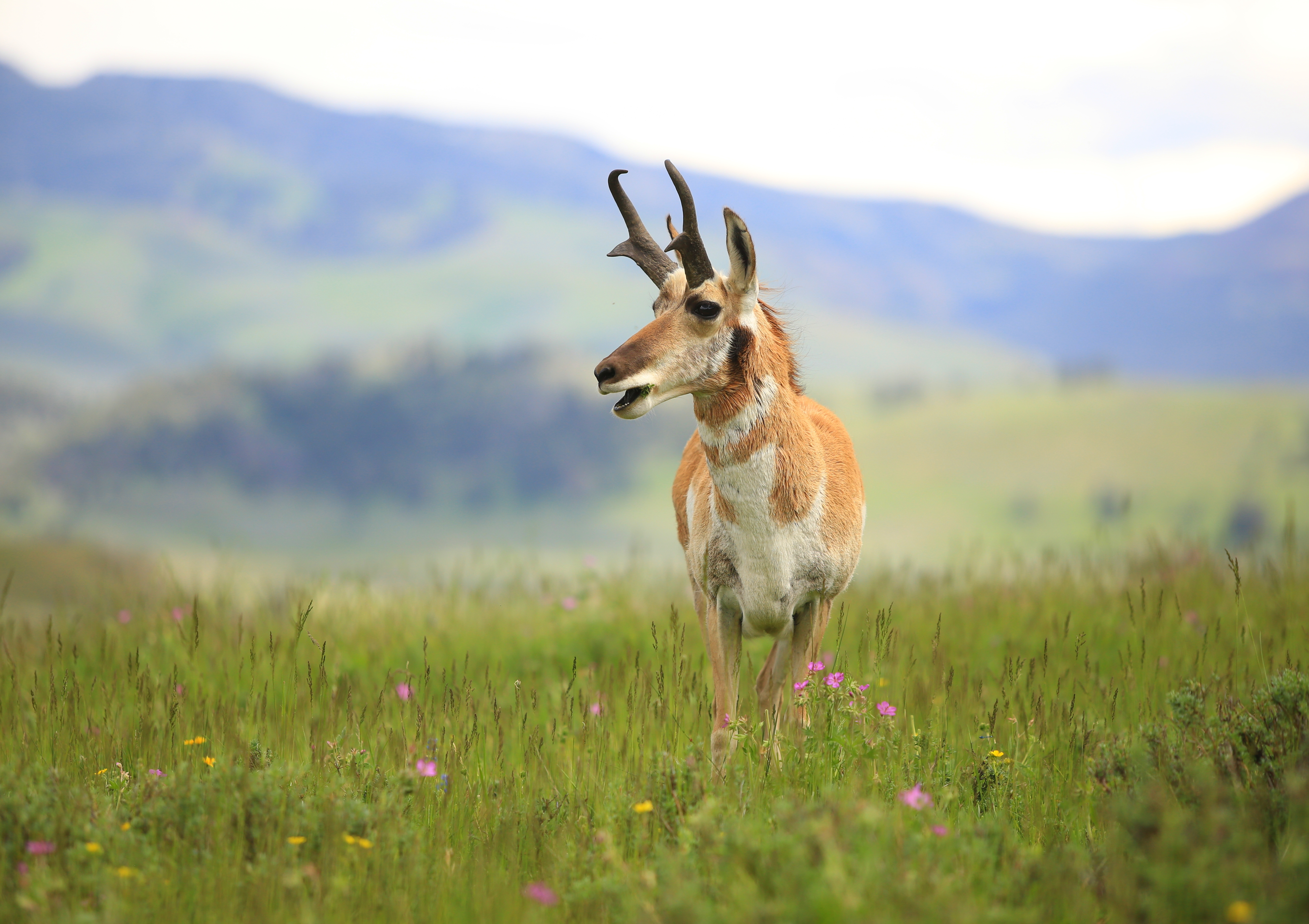 Adult male Pronghorn (Antilocapra americana) in Yellowstone National Park, USA. Photograph location: Highway 212, NE Entrance Road near Yellowstone River crossing.